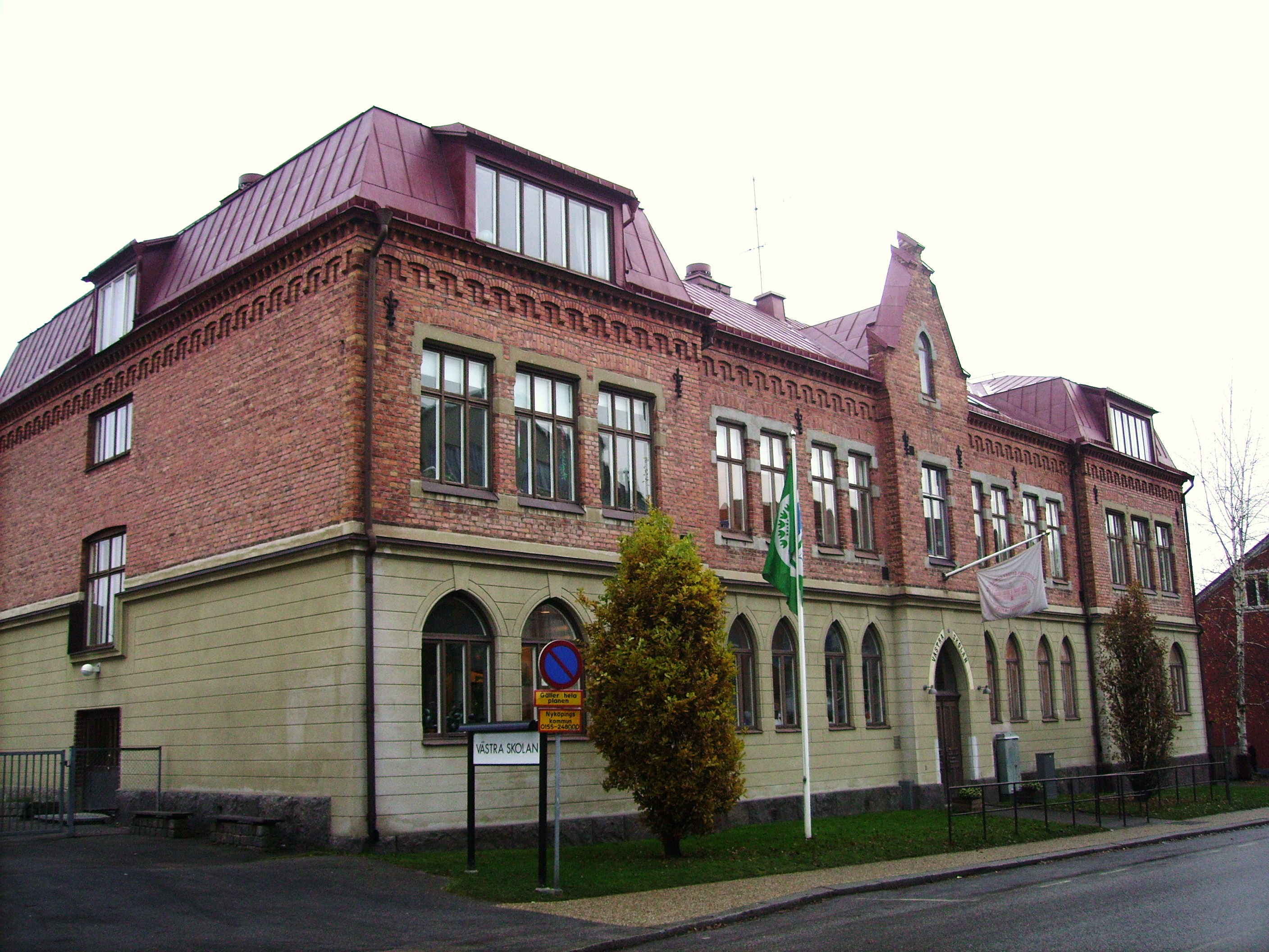 Picture of Västra skolan in Nyköping